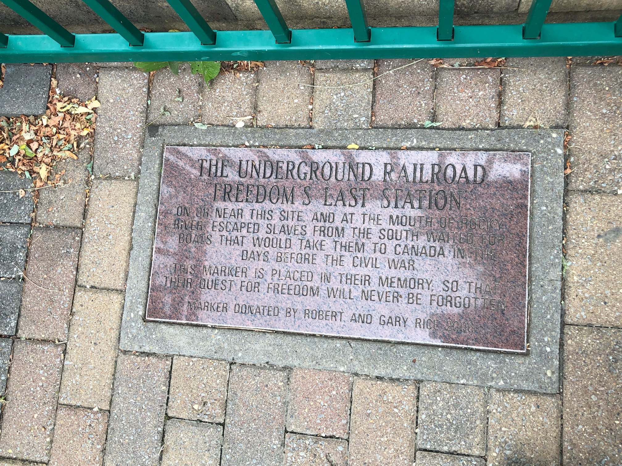 Underground Railroad Marker at Lakewood Park, Lakewood, OH